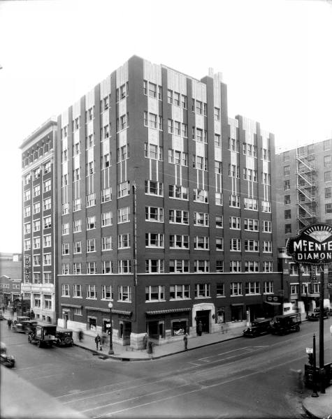 This was demolished by the Tulsa World for a parking lot. Interesting that the McEntee's Jewelry sign on the right is the same one that I photographed down in Muskogee. From the Beryl Ford Collection at the Tulsa City-County Library.